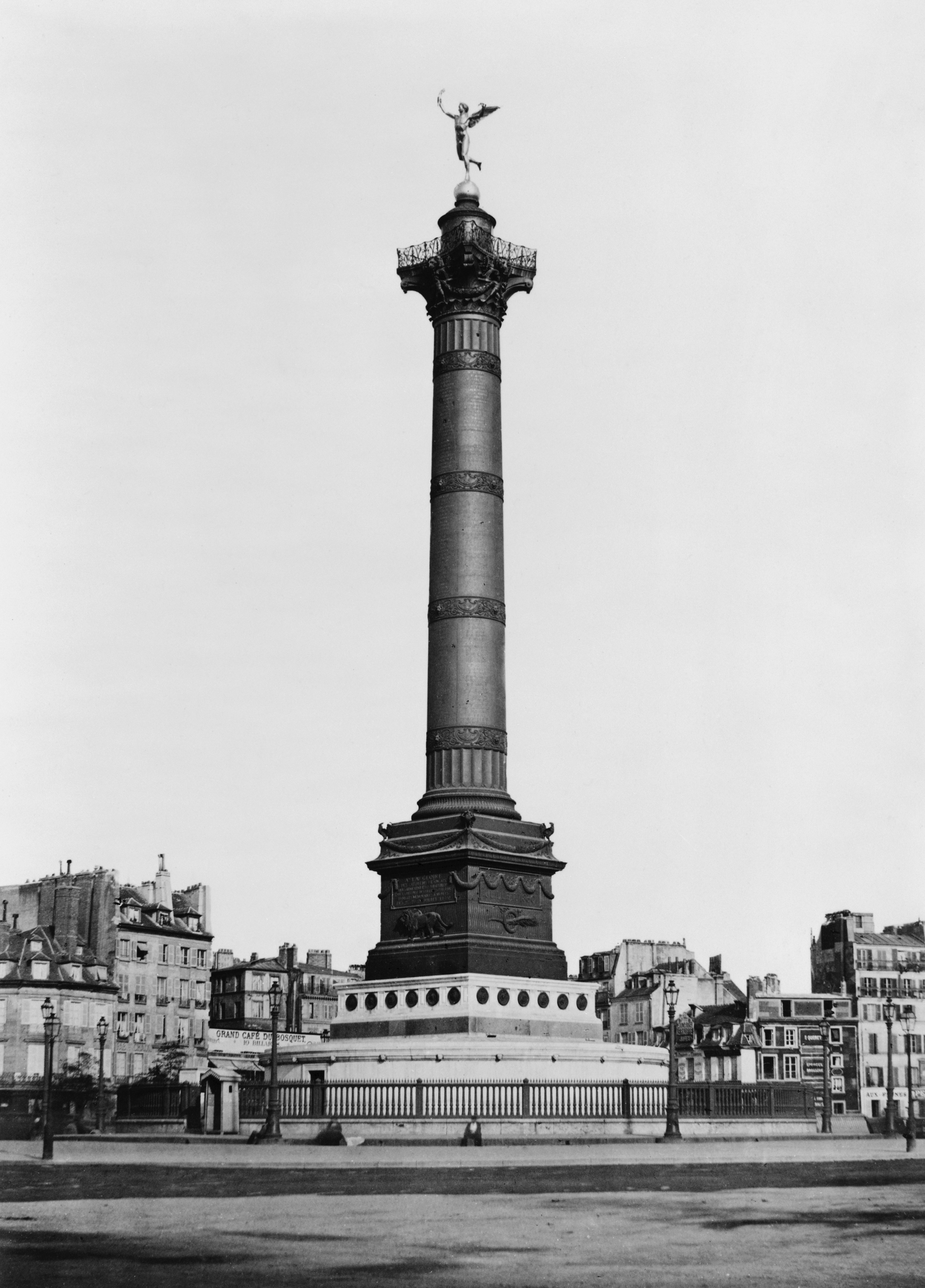 July Column, Place de la Bastille, Paris.